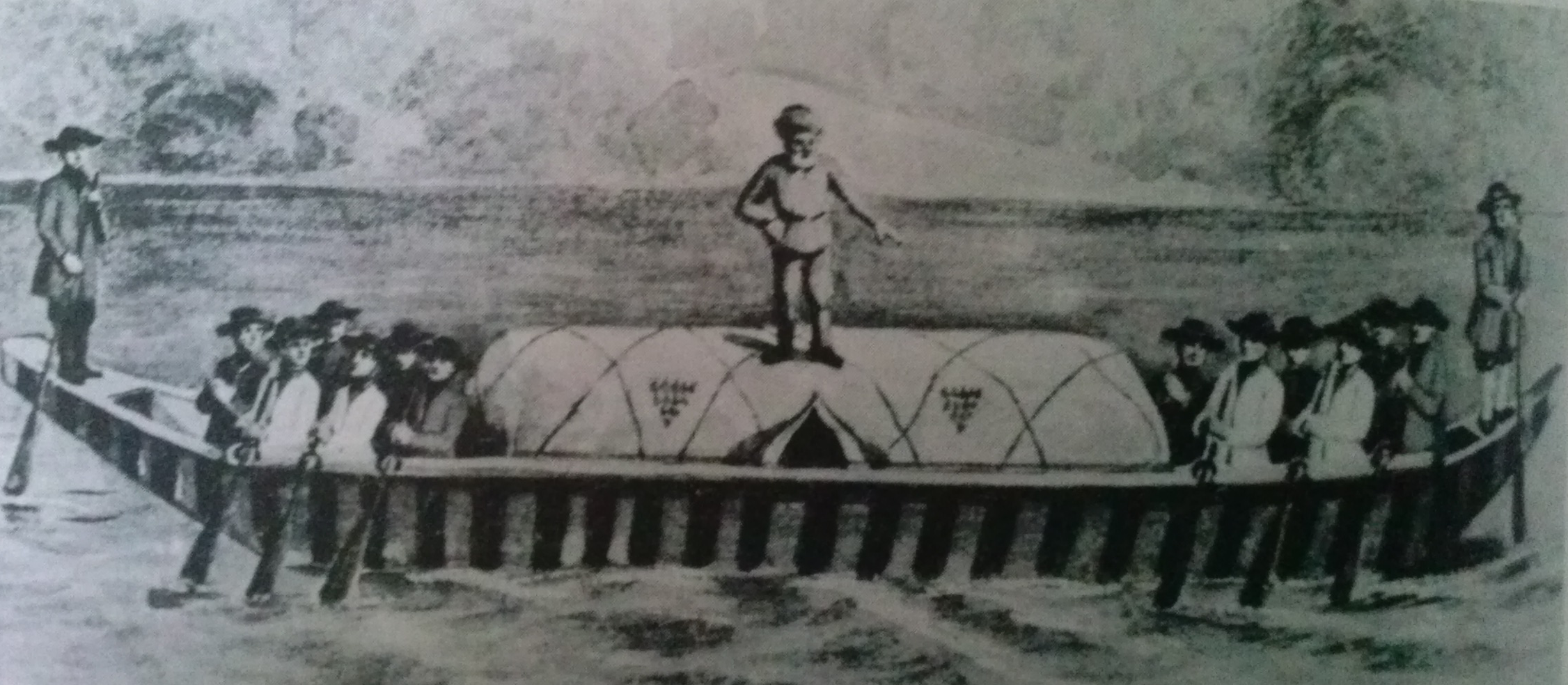 Darstellung einer Naufahrt aus dem Jahr 1571